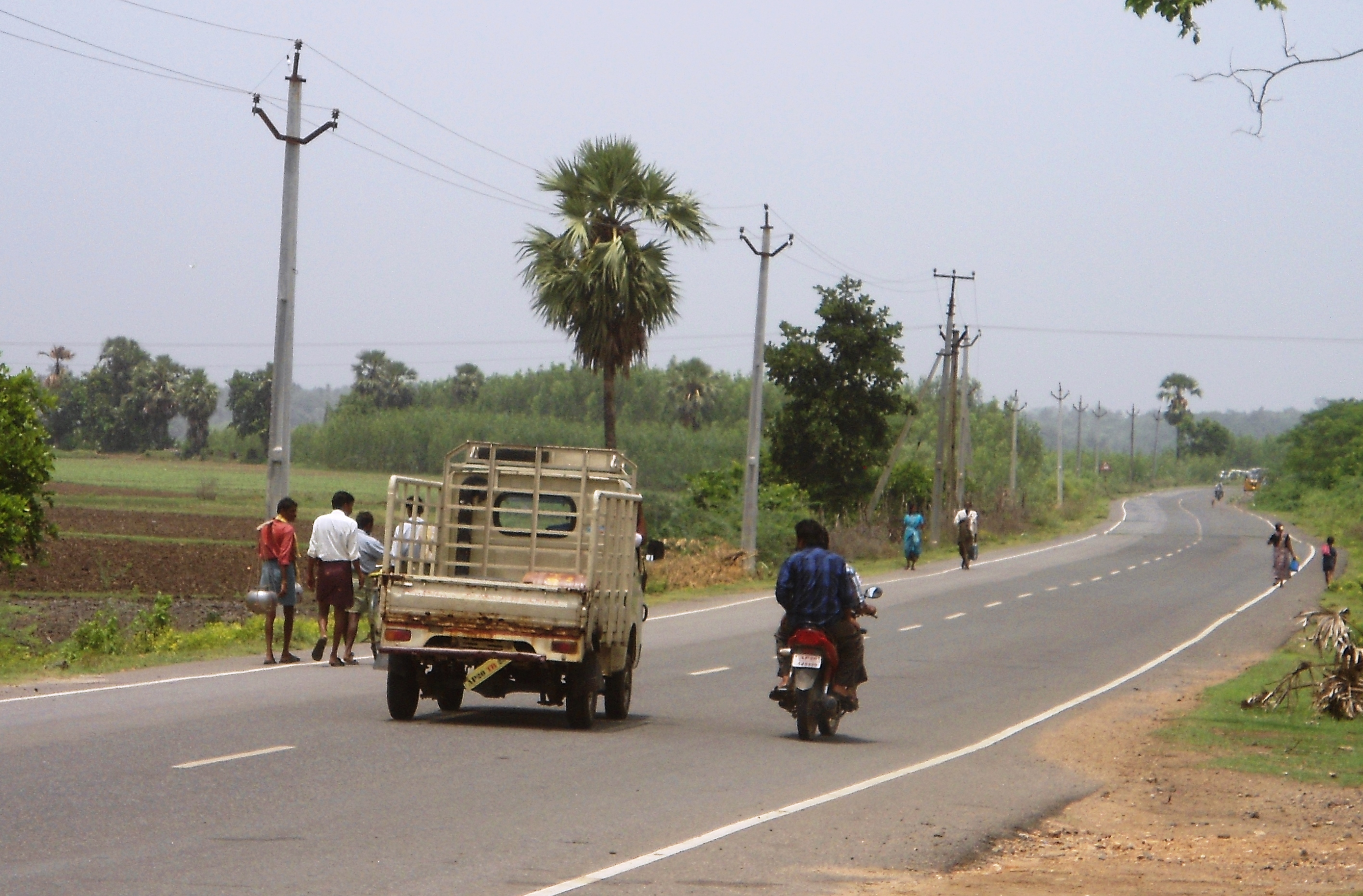 National Highway 221 (Renumbered as NH-30) at Venkatreddypeta in East Godavari district